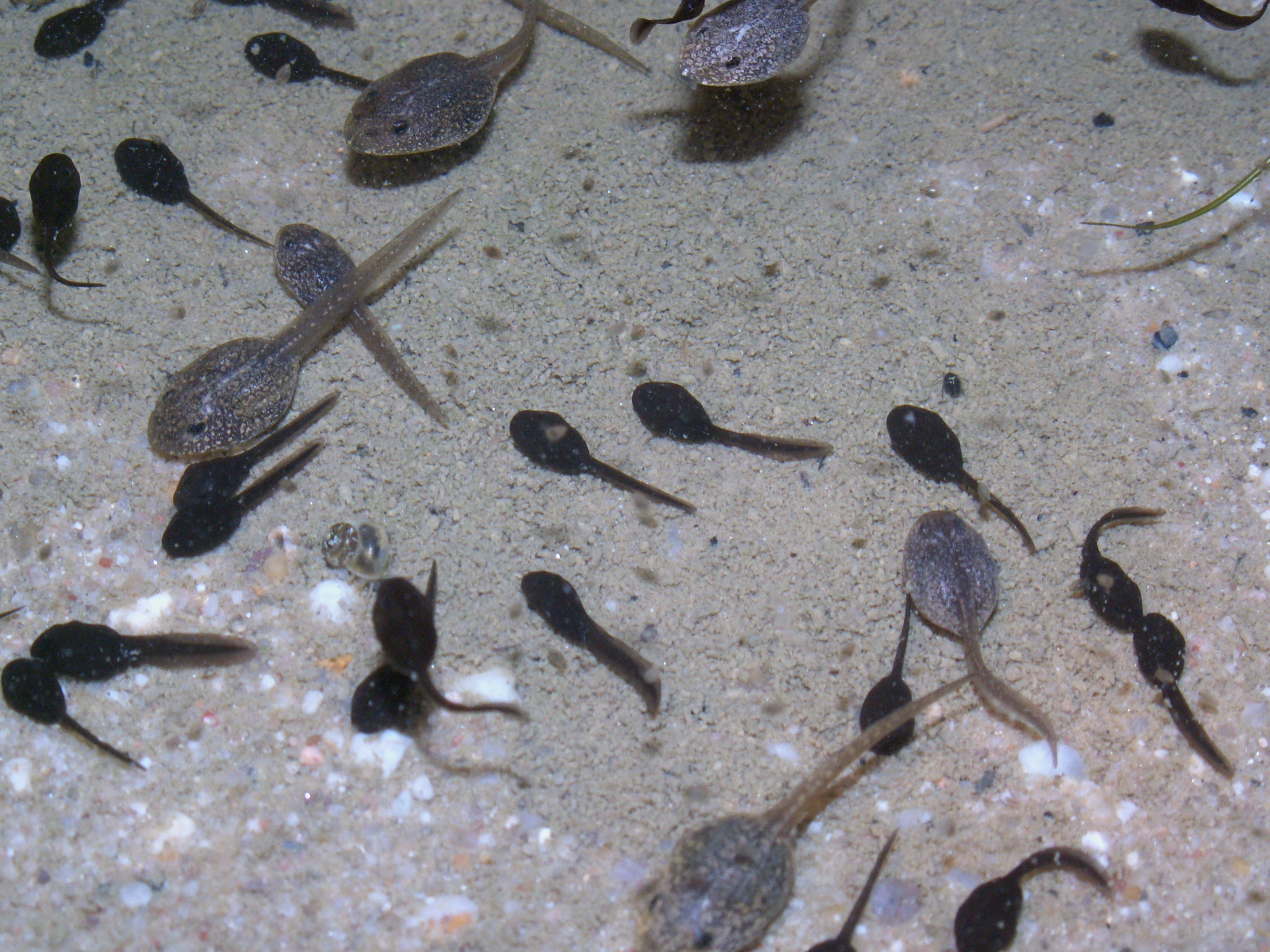 Larvae of Rana temporaria (light and big) and Bufo bufo (Black and small) Netherlands